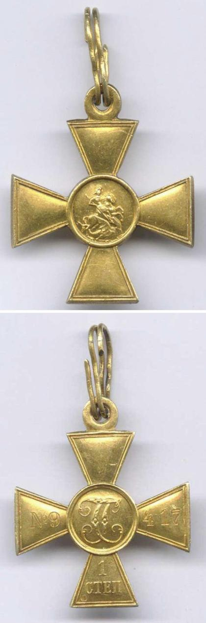 Cross of St. George 1st